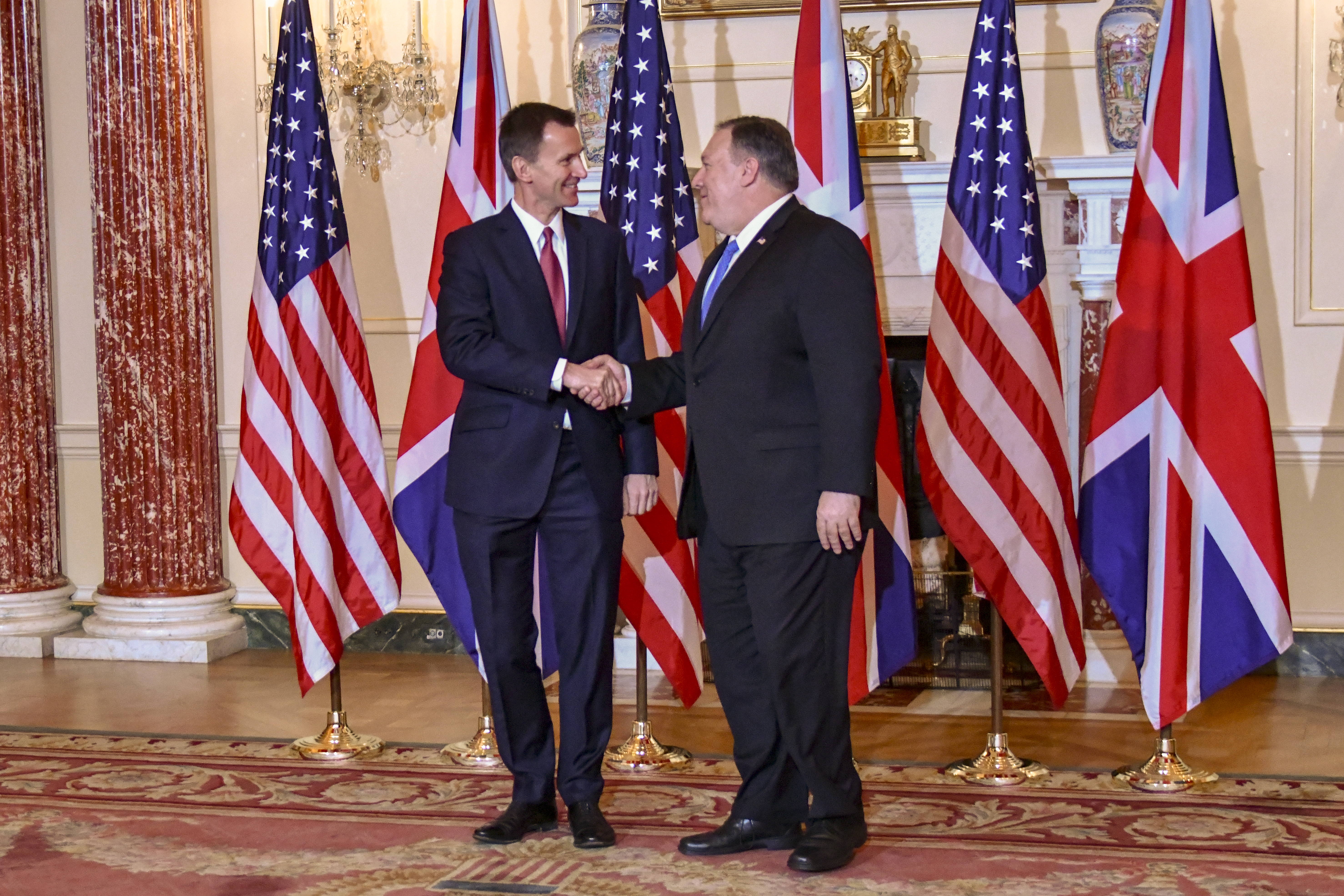 U.S. Secretary of State Michael R. Pompeo welcomes UK Foreign Secretary Jeremy Hunt to the U.S. Department of State in Washington, D.C., on January 24, 2019. [State Department photo by Ron Pryzsucha/ Public Domain]